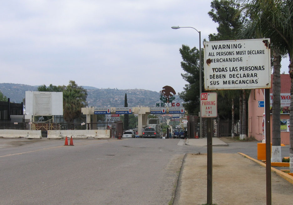 US-Mexico border crossing. Tecate, California, USA facing south to Tecate, Baja California, Mexico.